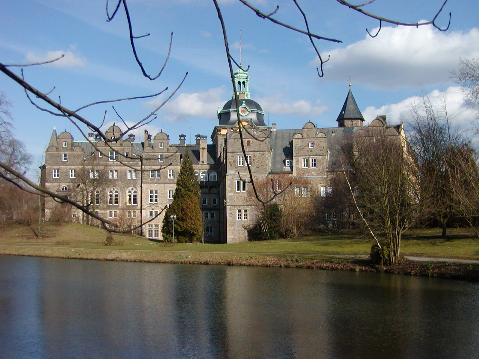 Castle in Bückeburg, Germany. View from West.